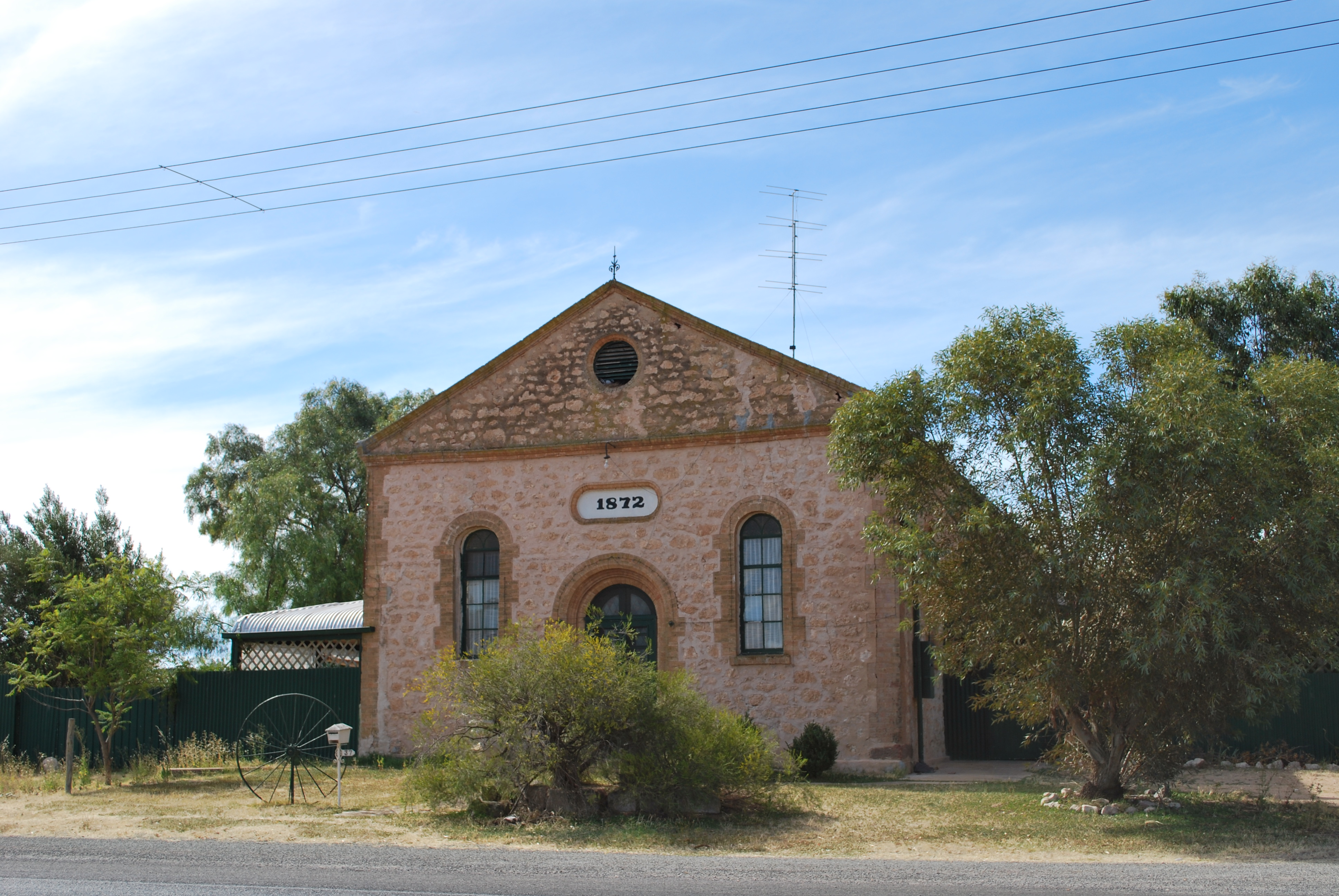 Hall, Cross Roads